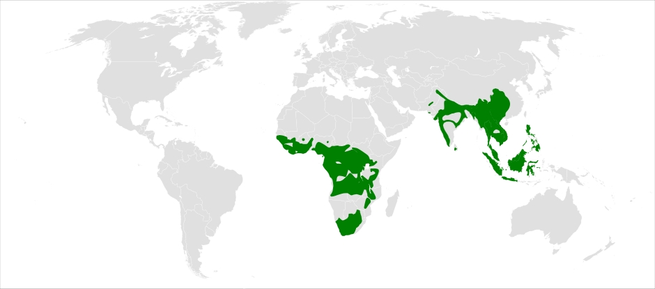 Stenostiridae distribution map; using BlankMap-World6.svg, based on